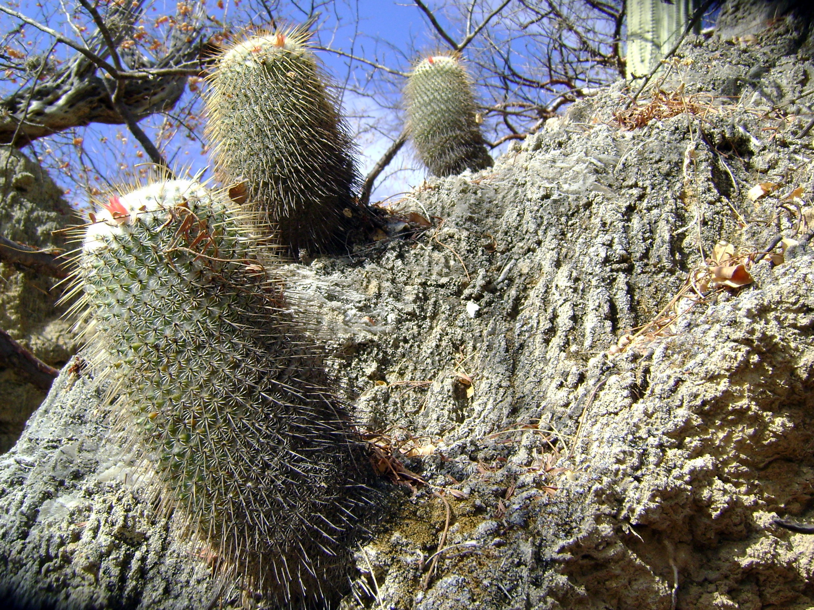 San Juan De Los Cues, Oaxaca 2.15km North West